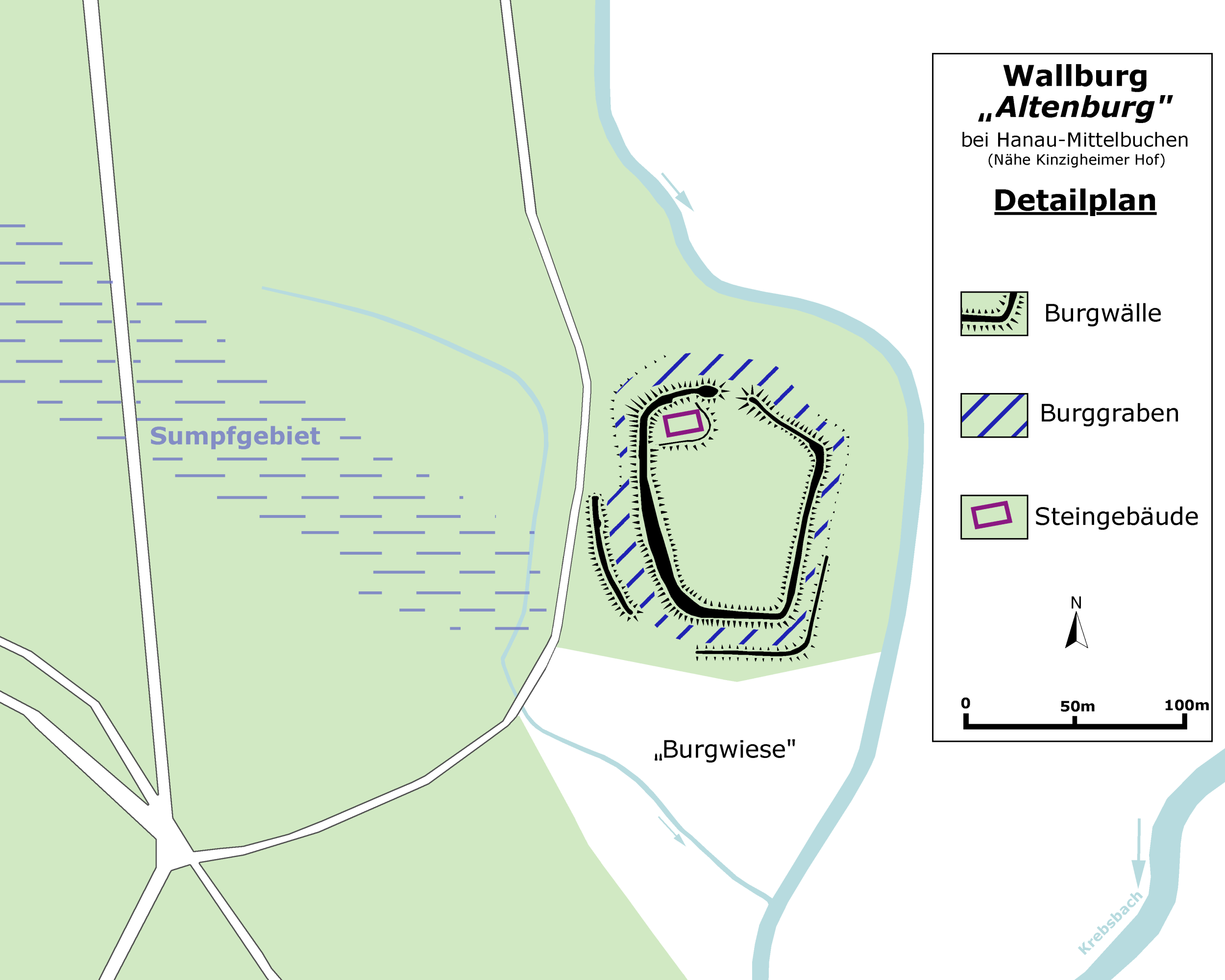 Plan of Castle Altenburg, Hanau-Mittelbuchen, Hesse.